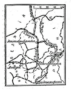 Old map of Luxembourg